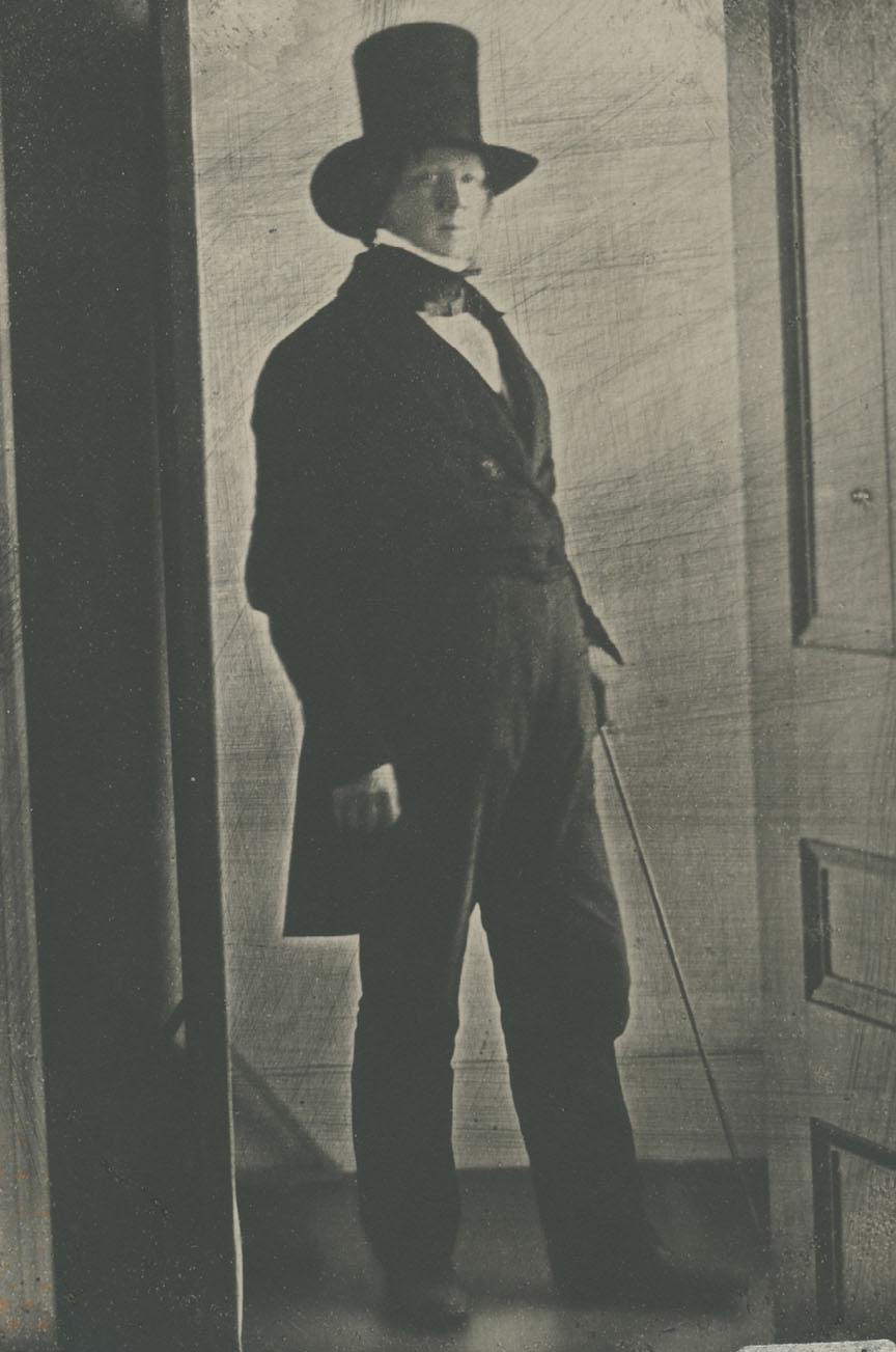 Historical daguerreotype of Brigham Young from circa 1846